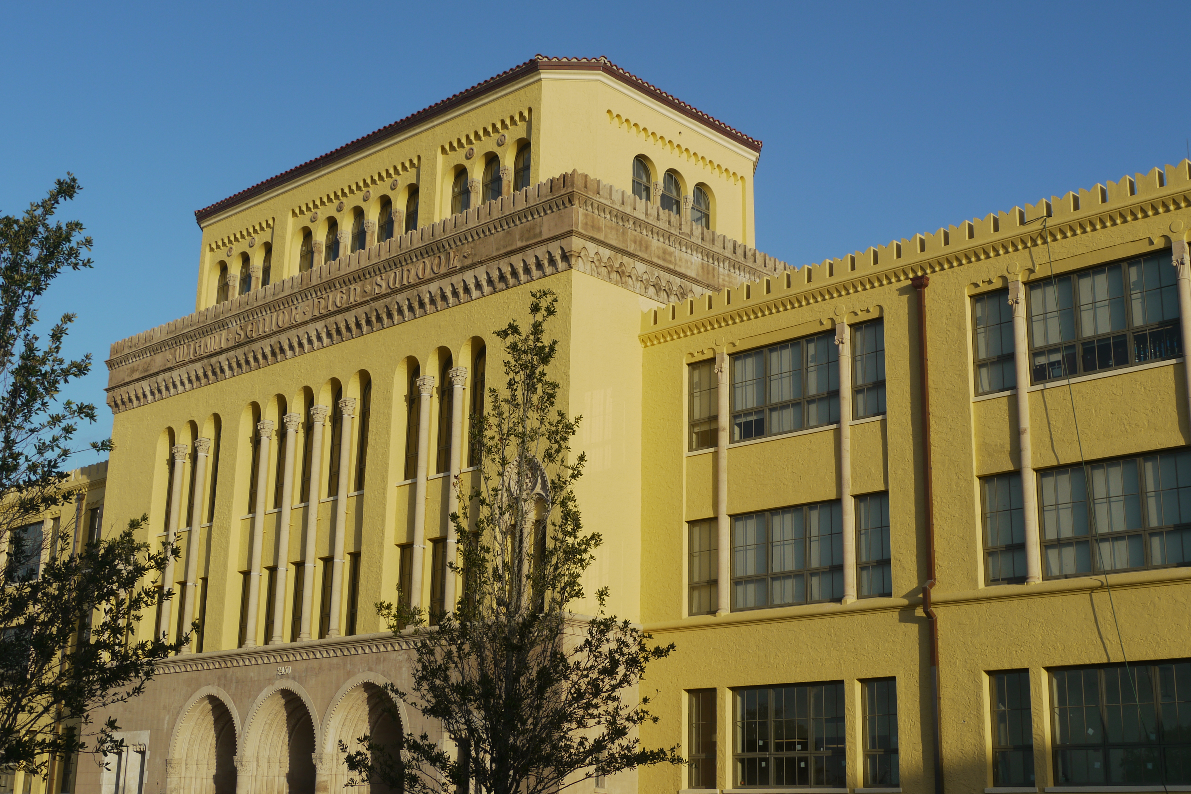 Miami Senior High School front entrance, during its restoration project, scheduled to be completed Winter 2013.